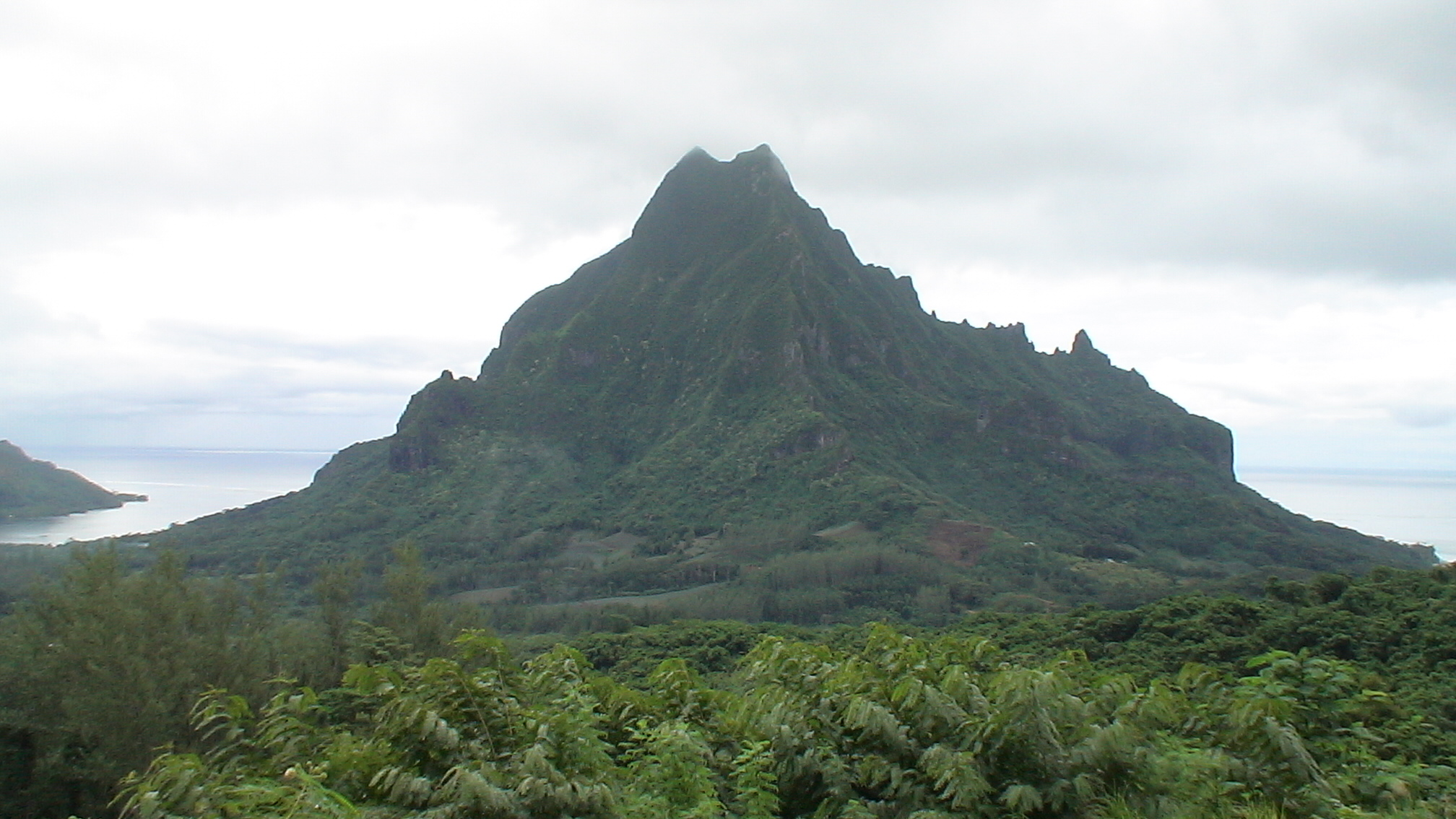 Mount Rotui, separating Oponohu from Cook Bay, Moorea, Society Islands, French Polynesia